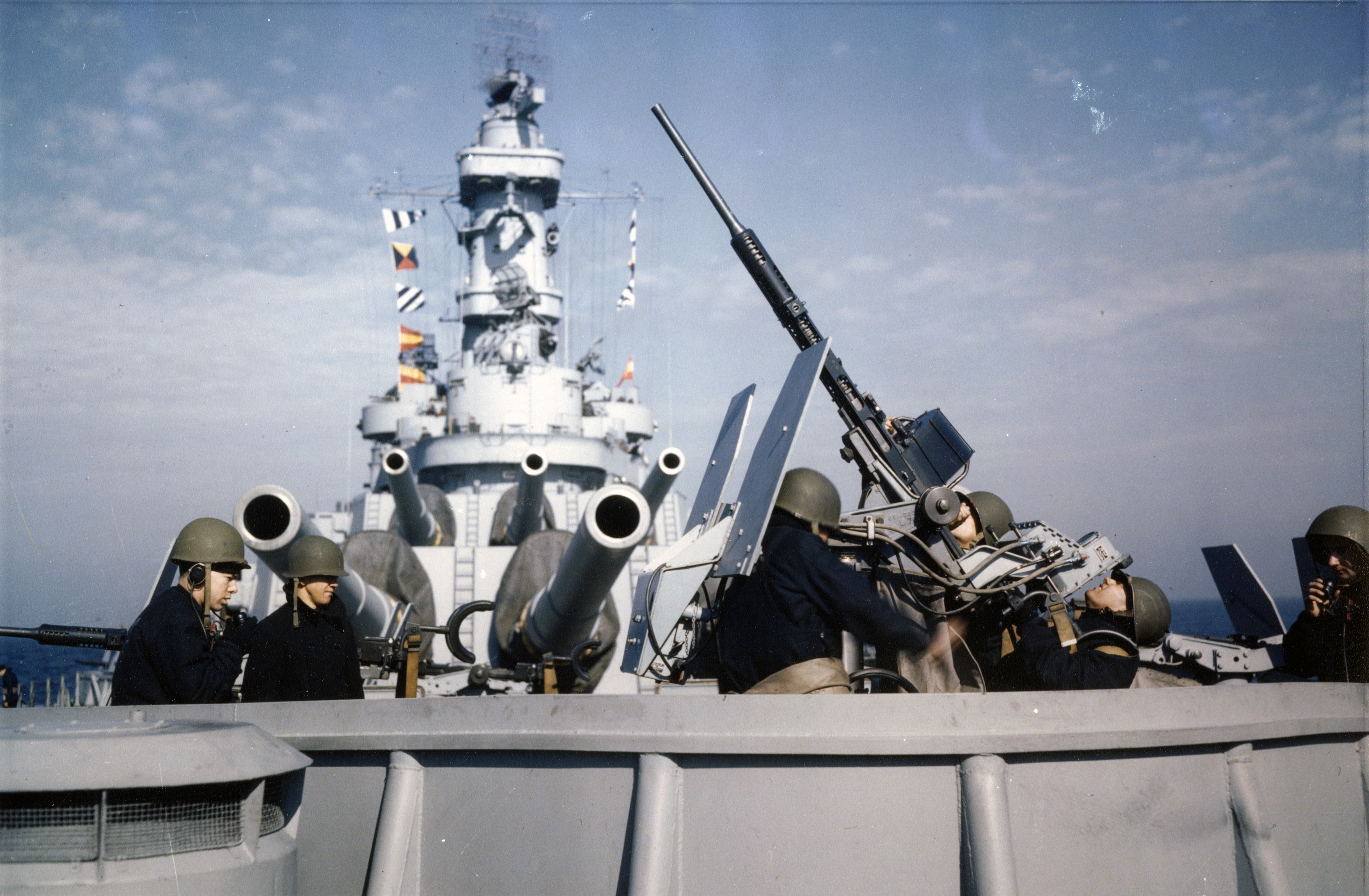 USS Iowa (BB-61) 20mm gun crew in action on the battleship's forecastle, probably during her shakedown period in the late winter and spring of 1943. Note gunner using the Mark 14 lead-computing gunsight mounted on the 20mm gun at right. Official U.S. Navy Photograph, now in the collections of the National Archives.